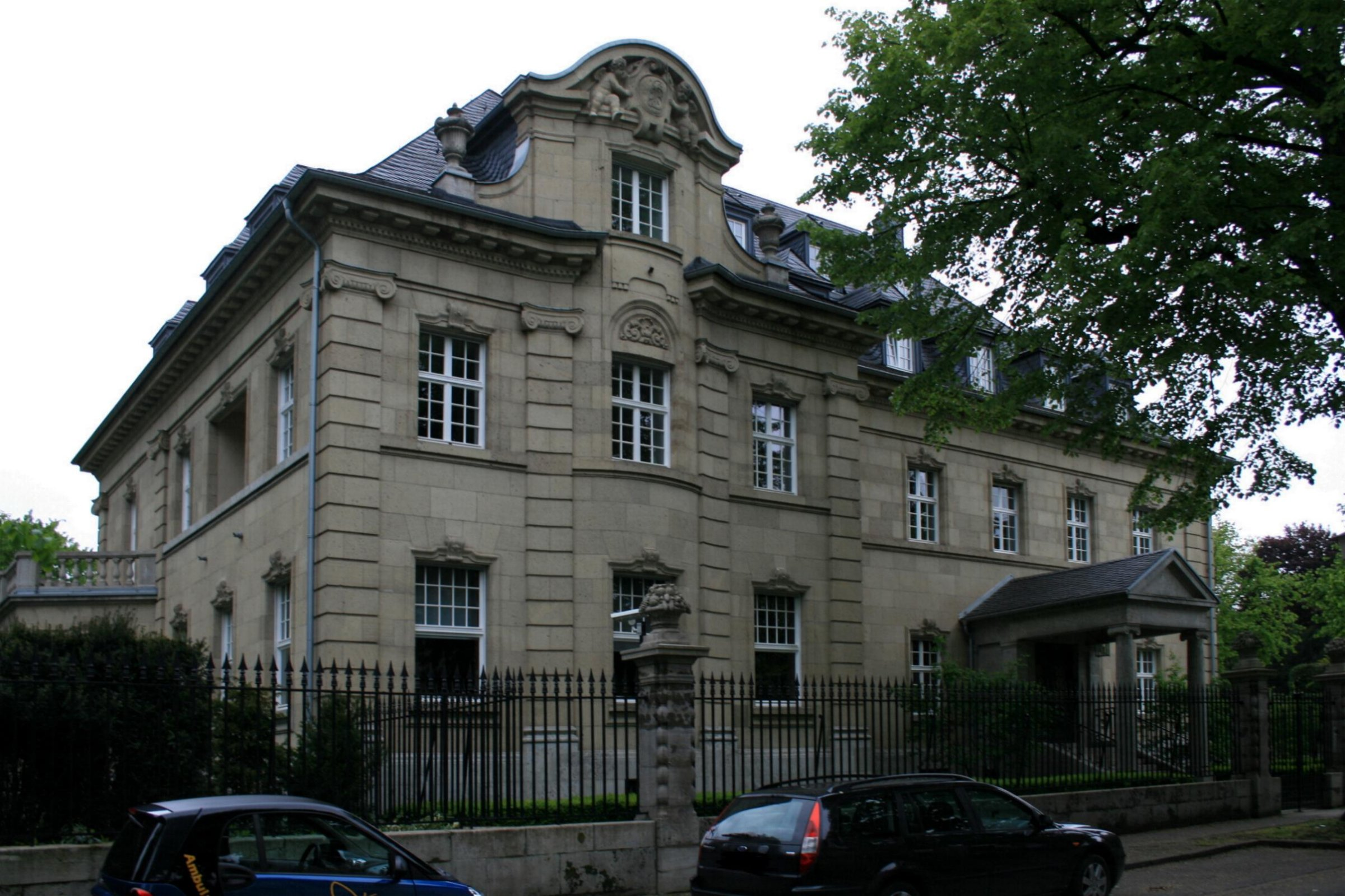 Cultural heritage monument No. M 009 in Mönchengladbach This is a photograph of an architectural monument. 009